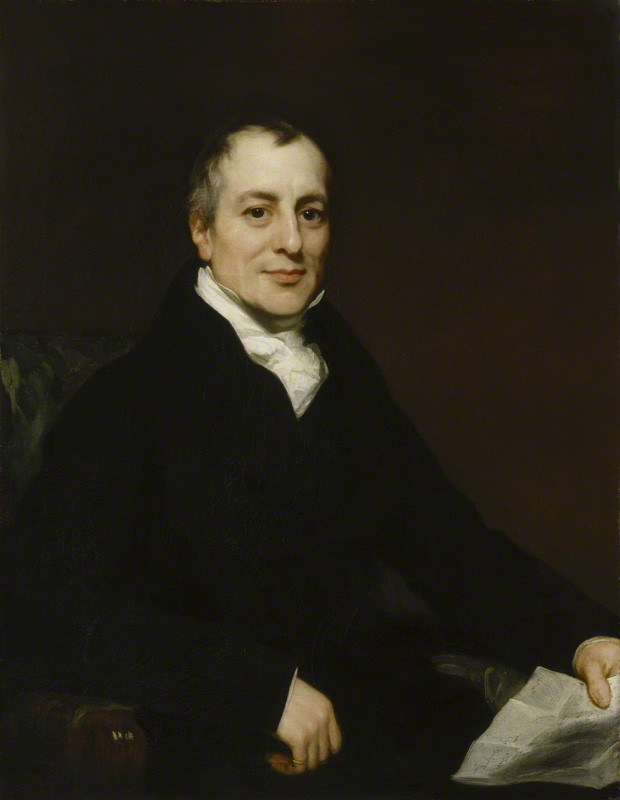 Portrait of the British economist David Ricardo. Lent to the National portrait gallery by Christopher Ricardo, 2007. This painting shows Ricardo, aged 49 in 1821, just two years before his relatively early death.